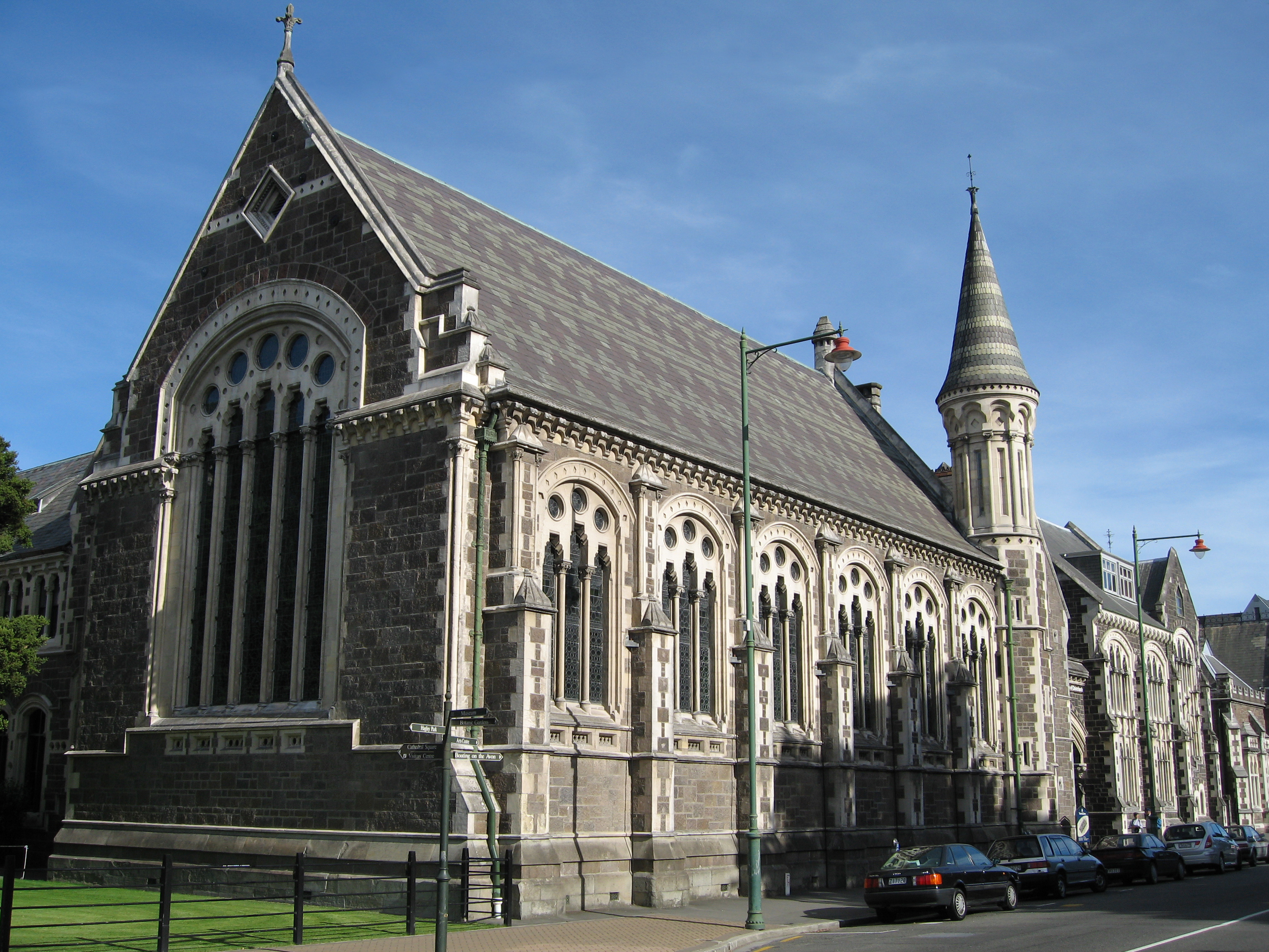 Great Hall, Canterbury College (now Christchurch Arts Centre), Christchurch, New Zealand. New Zealand Historic Places Trust Register number: 7301.